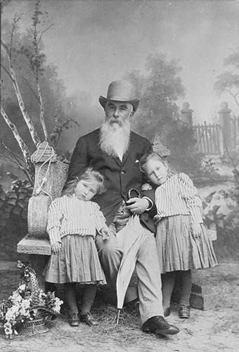 A.I. Abrikosov with granddaughters